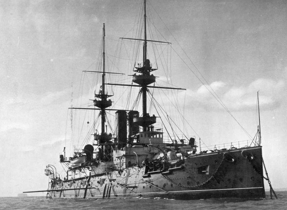 British battleship HMS Jupiter of 1895.